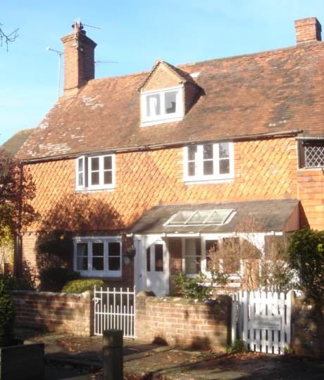 Harrow Cottage, The Street, Ifield, Borough of Crawley, West Sussex, England: an early 18th-century tile-hung cottage in the centre of Ifield village. Listed at Grade II by English Heritage (IoE code 363400)